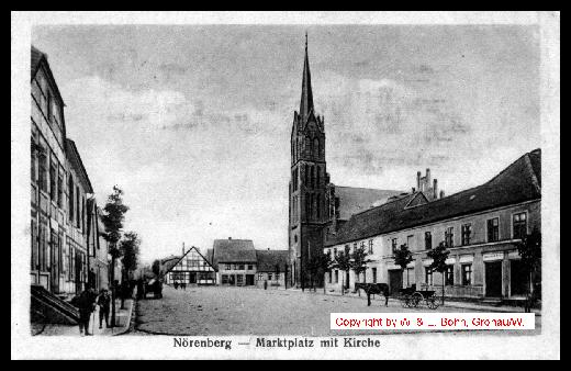 Ińsko Main square.